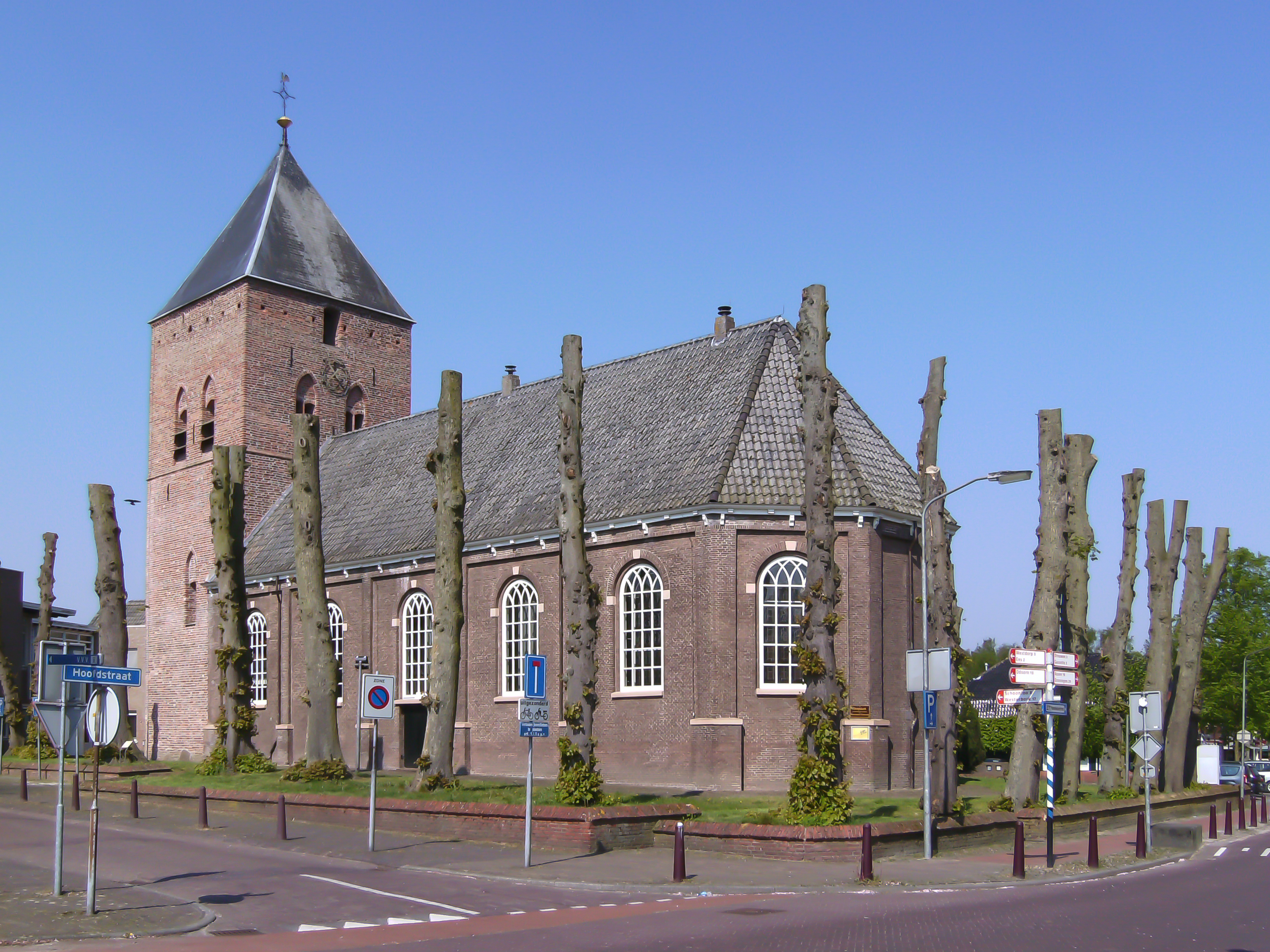 Borger, church